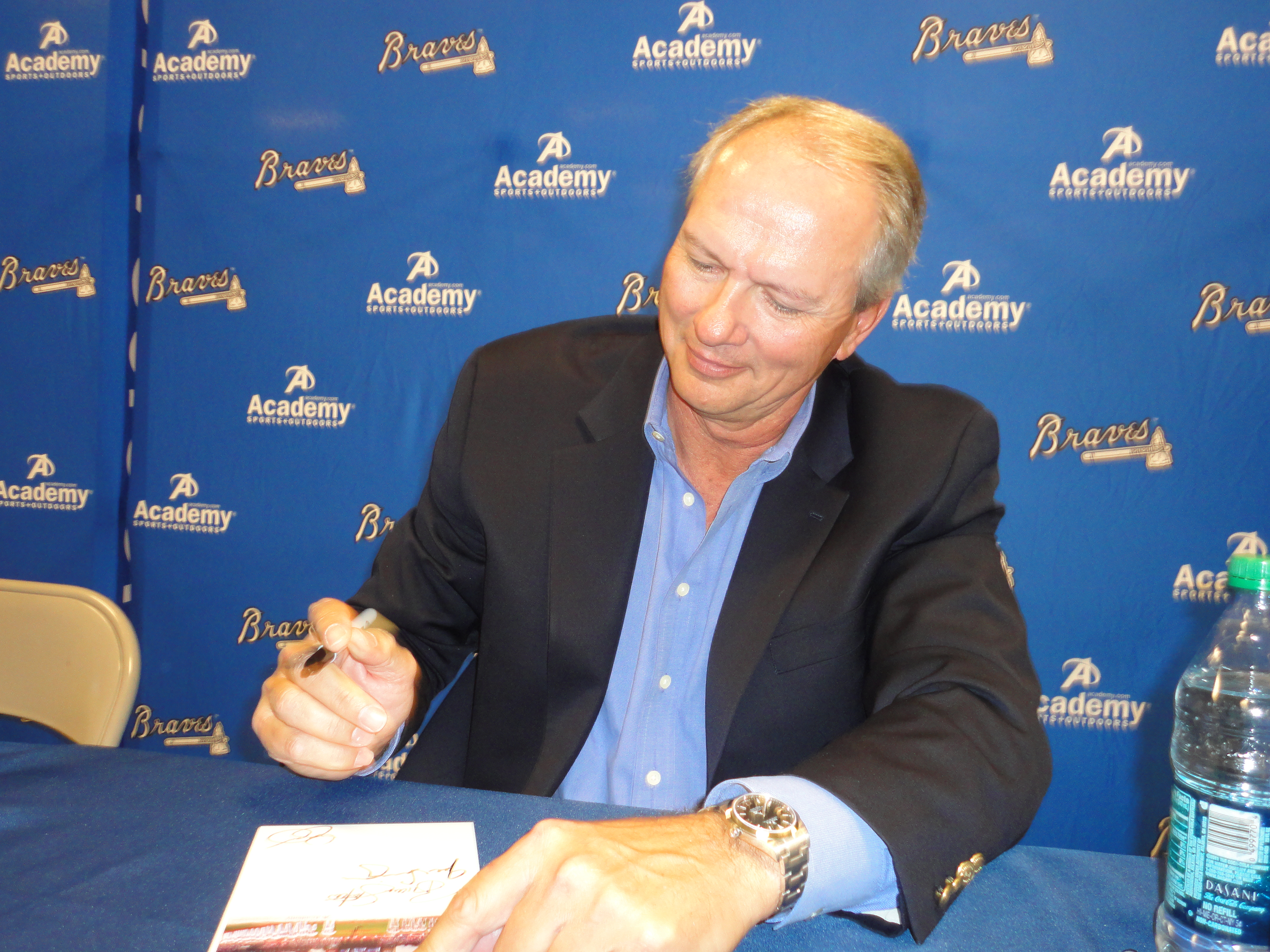 Braves broadcaster Joe Simpson at a 2012 Atlanta Braves Country Caravan autograph signing.